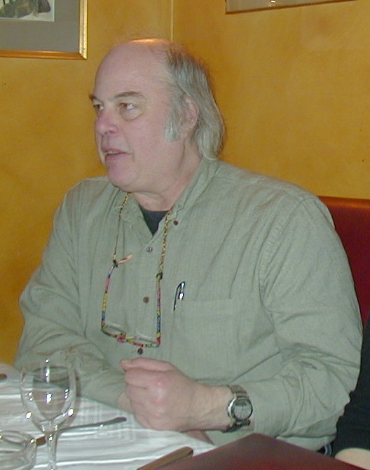 Ed Ward of NPR's Fresh Air, in Paris, January 2005. Photograph made by Michael C. Berch (User:MCB) on 2005-01-24.